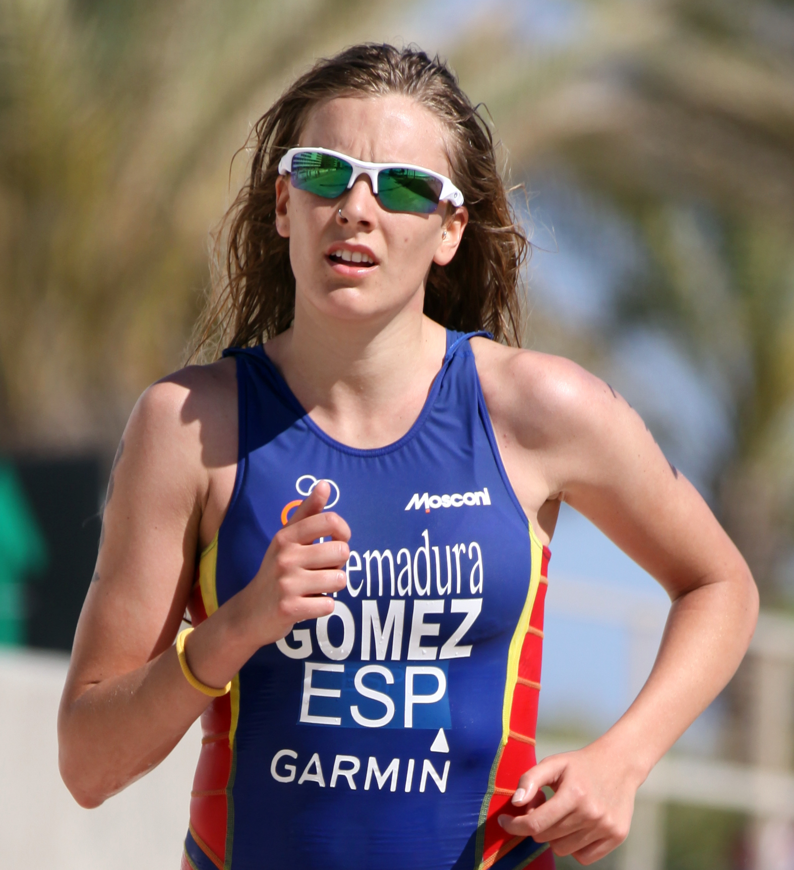 Tamara Gómez Garrido at the European Cup triathlon in Quarteira.